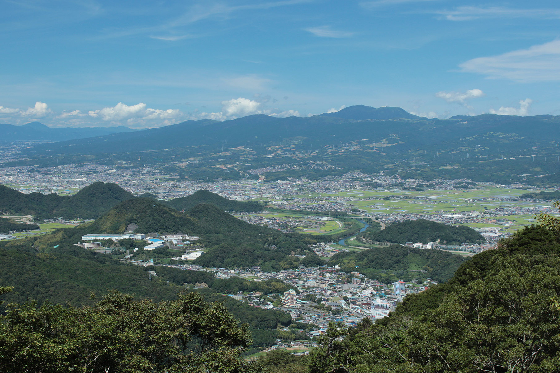 Hakone volcano viewed from the SW.